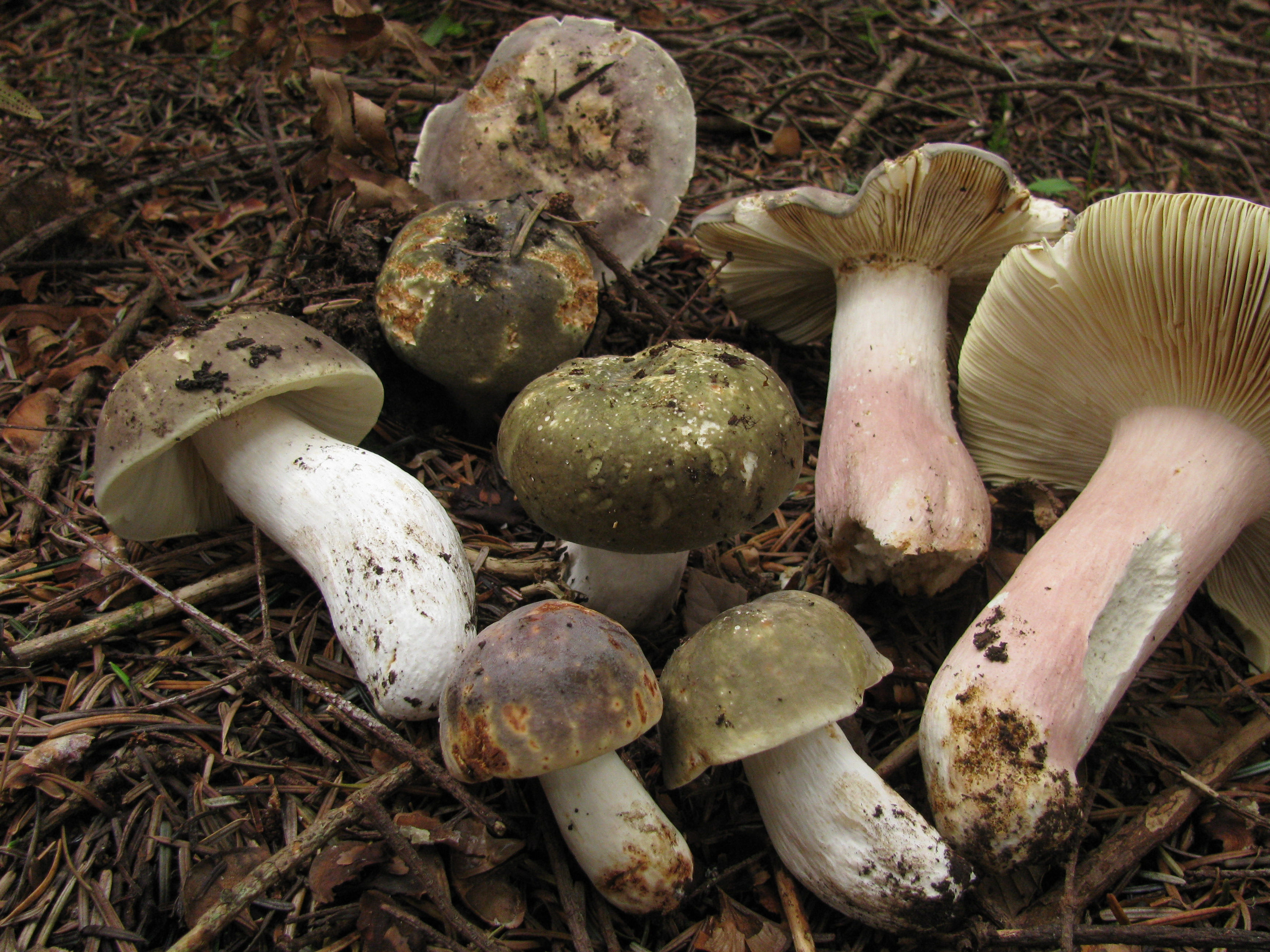 Russula olivacea (Schaeff.) Fr.